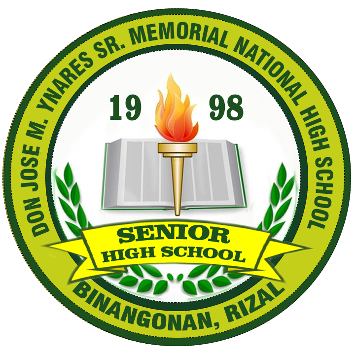 The seal depicts the official seal of Don Jose M. Ynares Sr. Memorial National High School Senior High School Department as used in official documents.